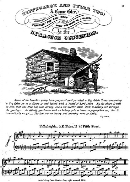 A score for Tippecanoe and Tyler too (or possibly a variation on the original score) copyrighted and published by one G. E. Blake of Philadelphia, Pennsylvania in 1840. The song was written by another man, Alexander Coffman Ross, to a common minstrel tune; Ross did not copyright it.